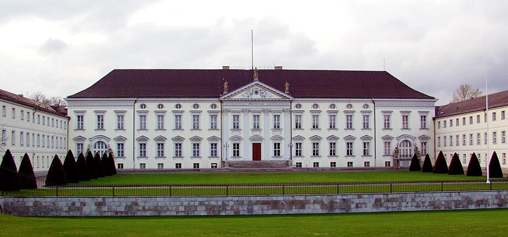 Berlin - Schloss Bellevue - front view